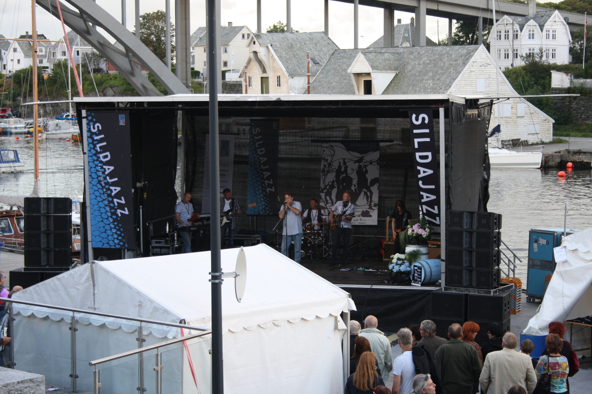 Sildajazz festival in Haugesund, Norway